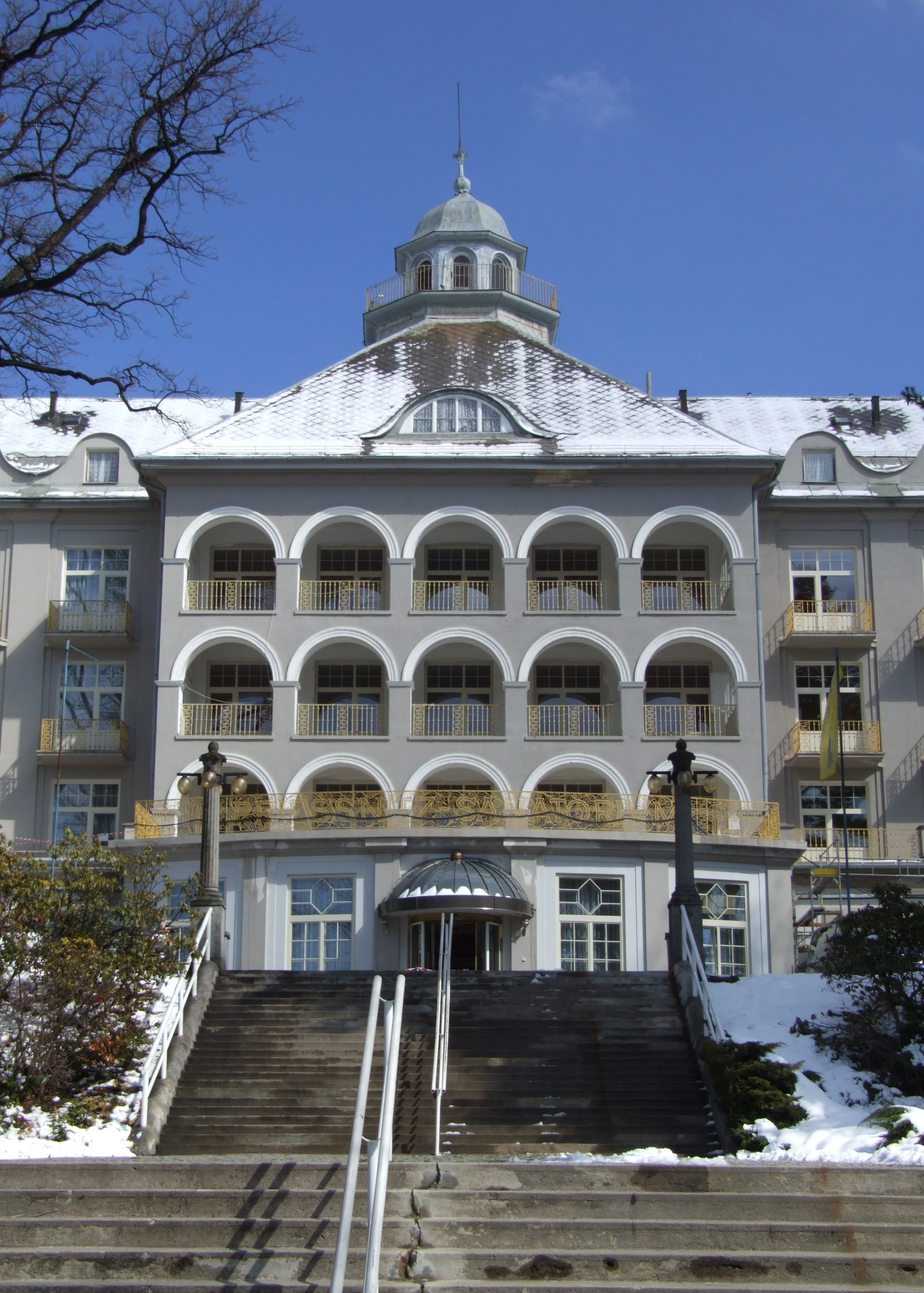 Lázně Jeseník (Bad Gräfenberg) - entrance to hotel Priessnitz